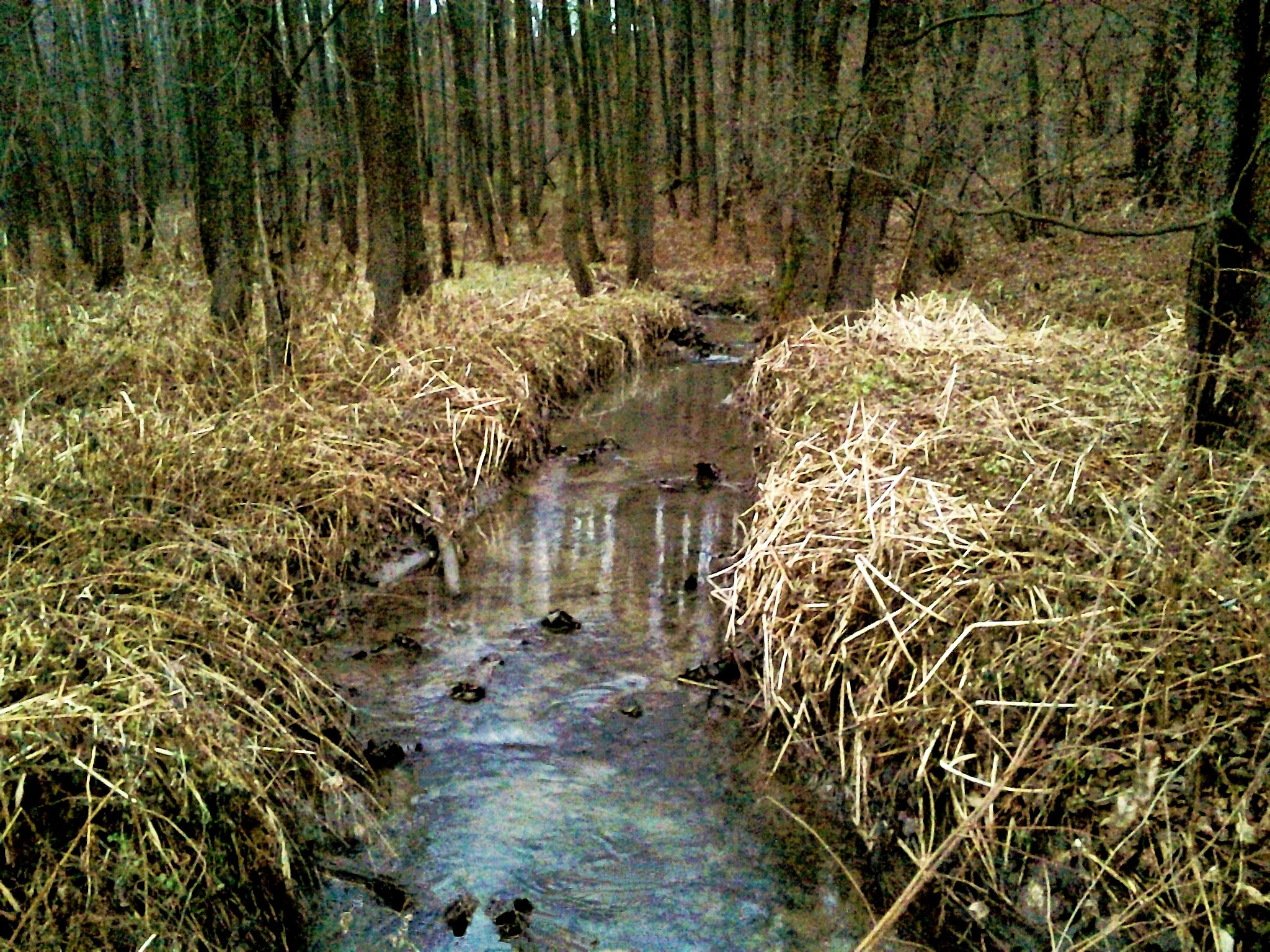 Lopenka river in the forest near the Simferopol highway